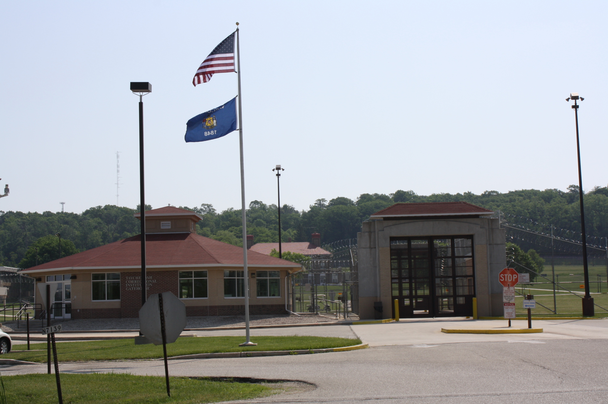 The entrance for the Taychedah Correctional Institution near Fond du Lac, Wisconsin.